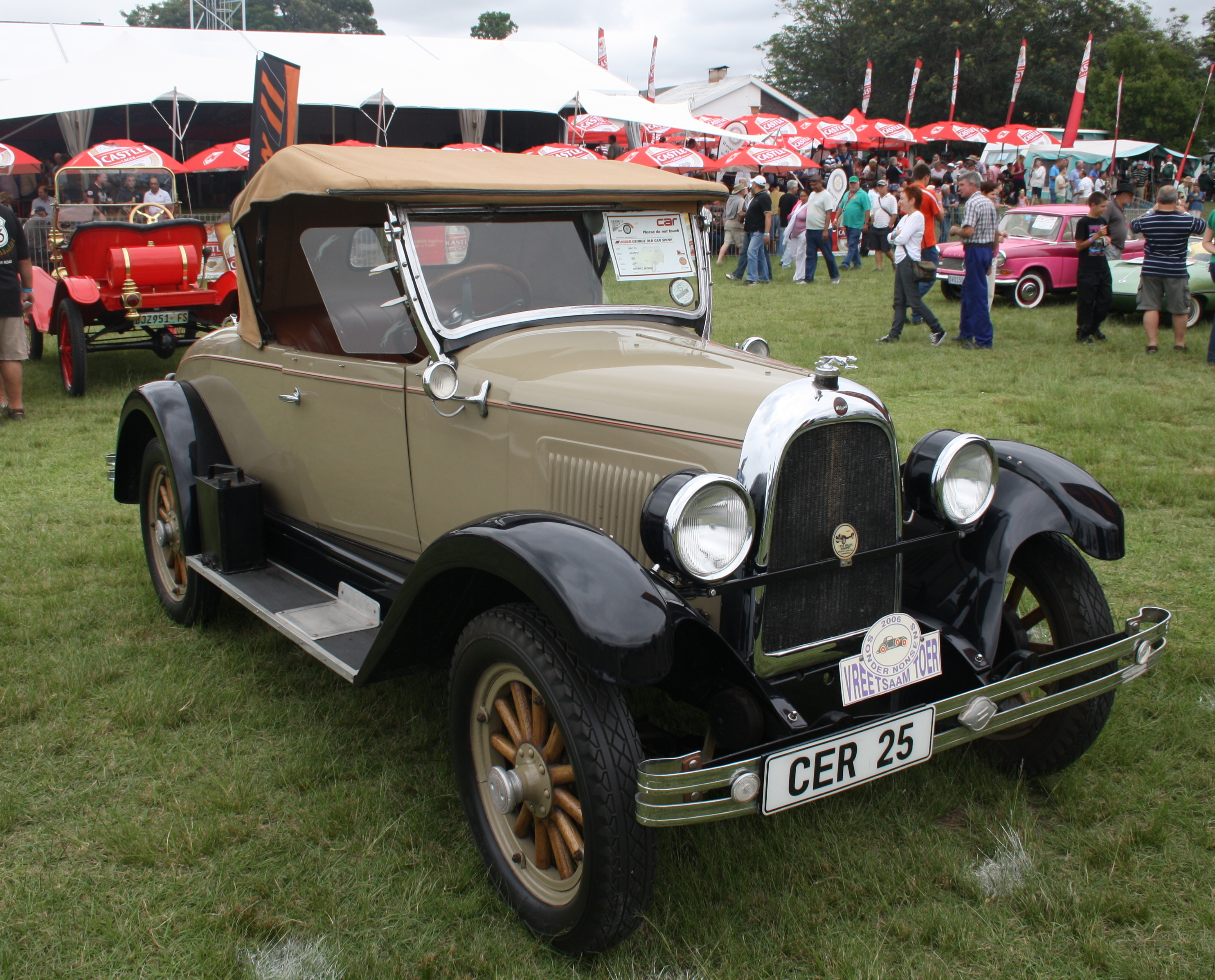 1928 Willys Whippet